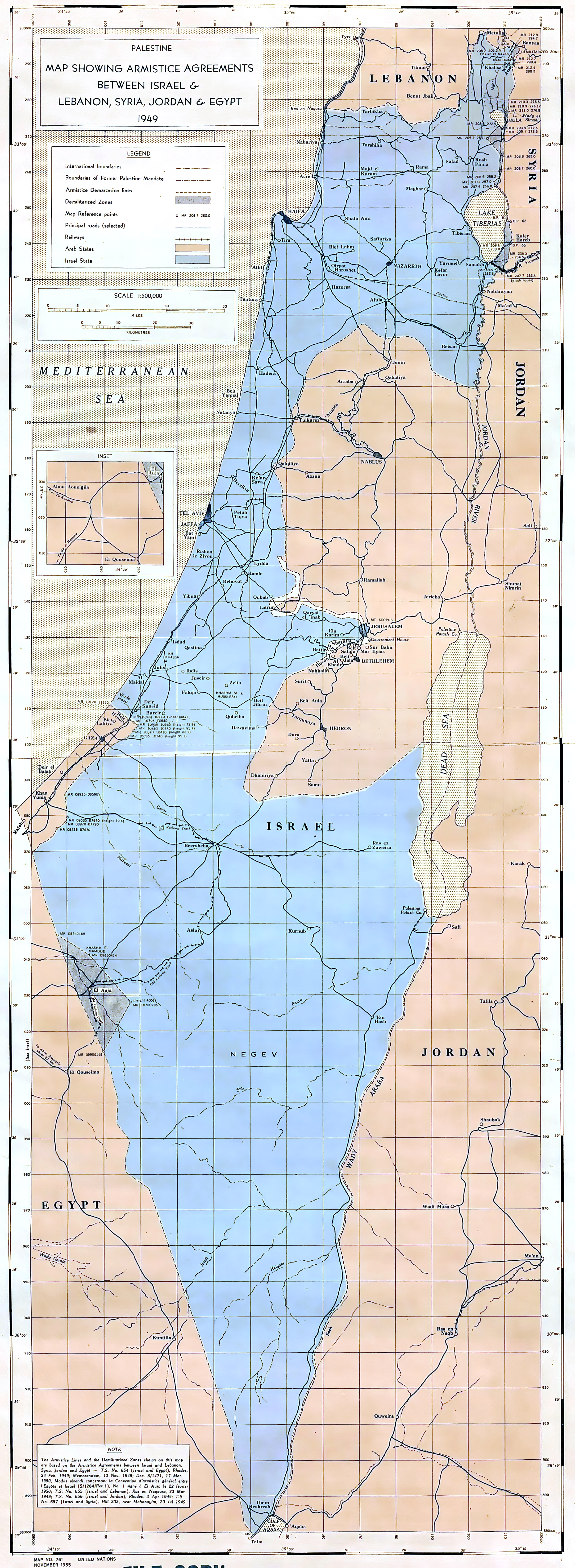 United Nations Palestine map showing Armistice Agreements between Israel & Lebanon, Syria, Jordan & Egypt 1949-1950 Original 92 x 38 cm. Scale 1:500.000 E 34020'-E 35045'/N 33020'-N 29030'